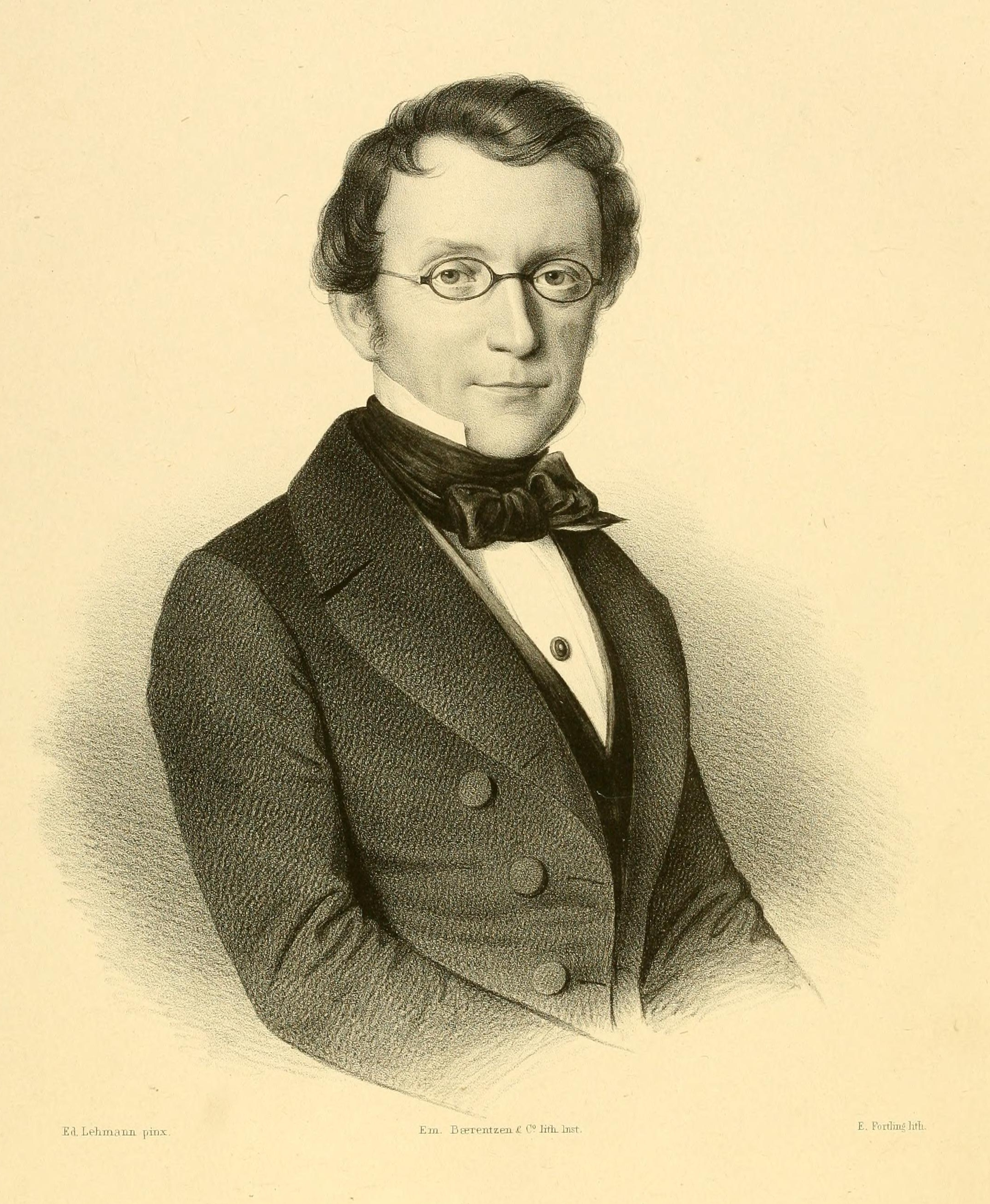 Daniel Friedrich Eschricht